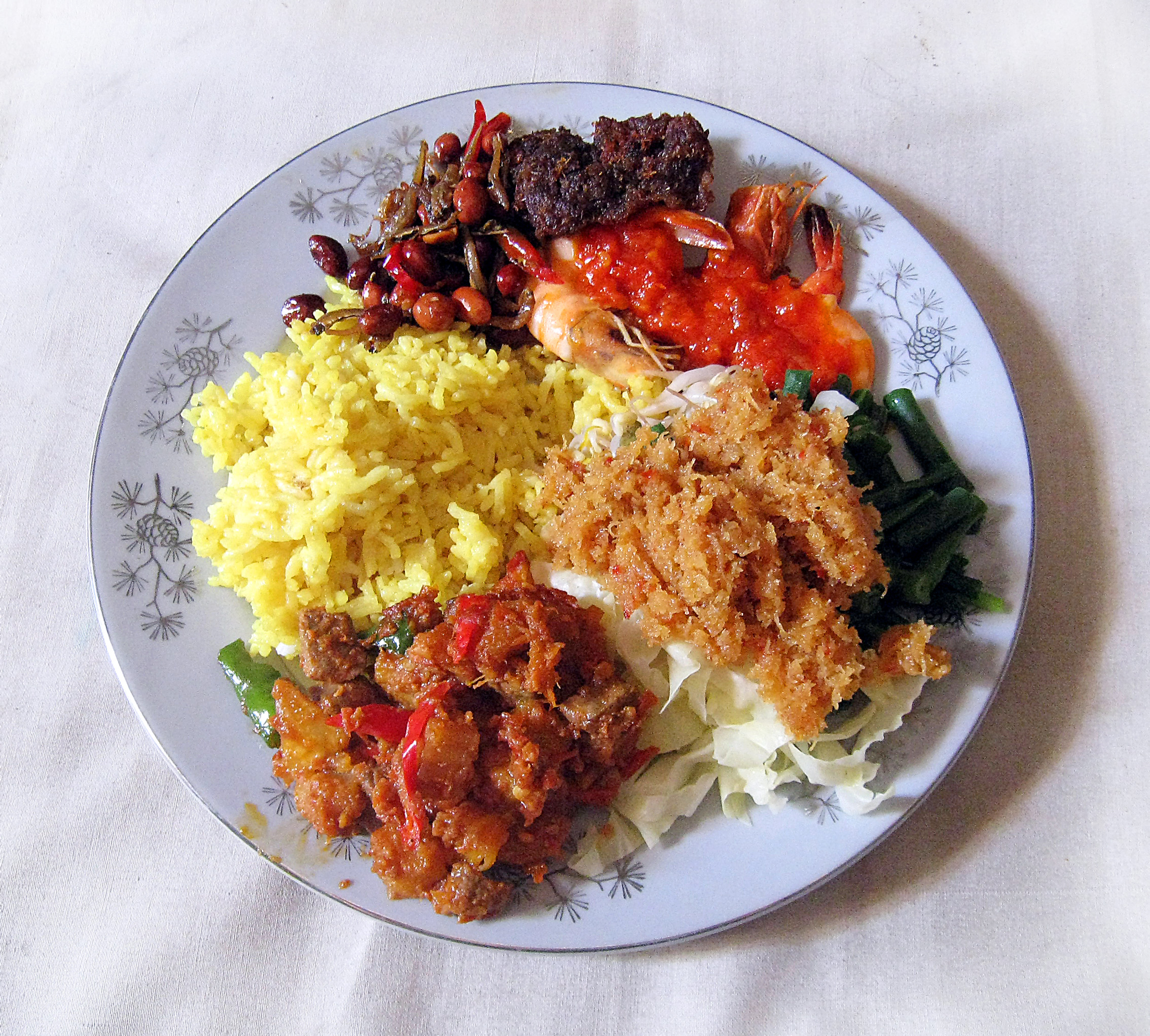 Delicious and succulent Nasi Kuning Ibu Sulastri, yellow rice colored with turmeric, surrounded by teri kacang (anchovy with peanuts), empal gepuk (sweet fried beef), udang balado (shrimp in chilli), urab (vegetables in shredded coconut dressing), and sambal goreng kentang (spicy potato). Yellow rice is considered as celebrative Indonesian dish and often made as Tumpeng (cone shaped rice with assortment of Indonesian dishes). Jakarta, Indonesia.